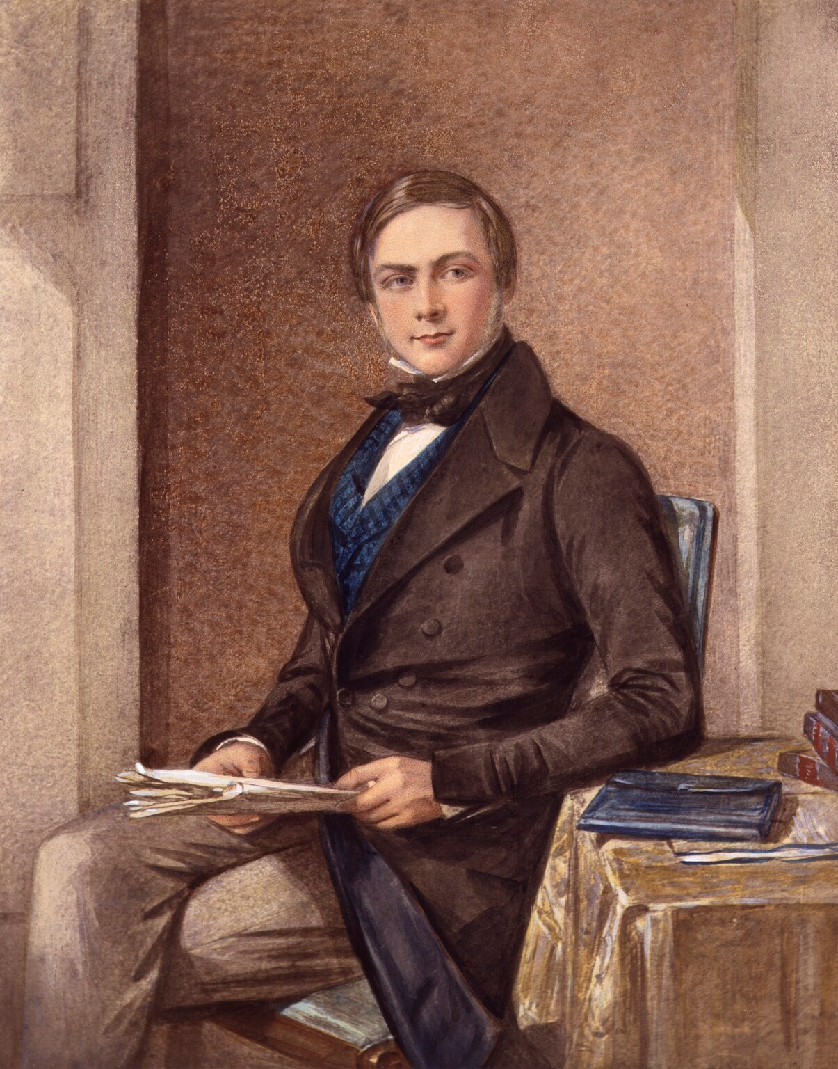 watercolour 337 mm x 267 mm